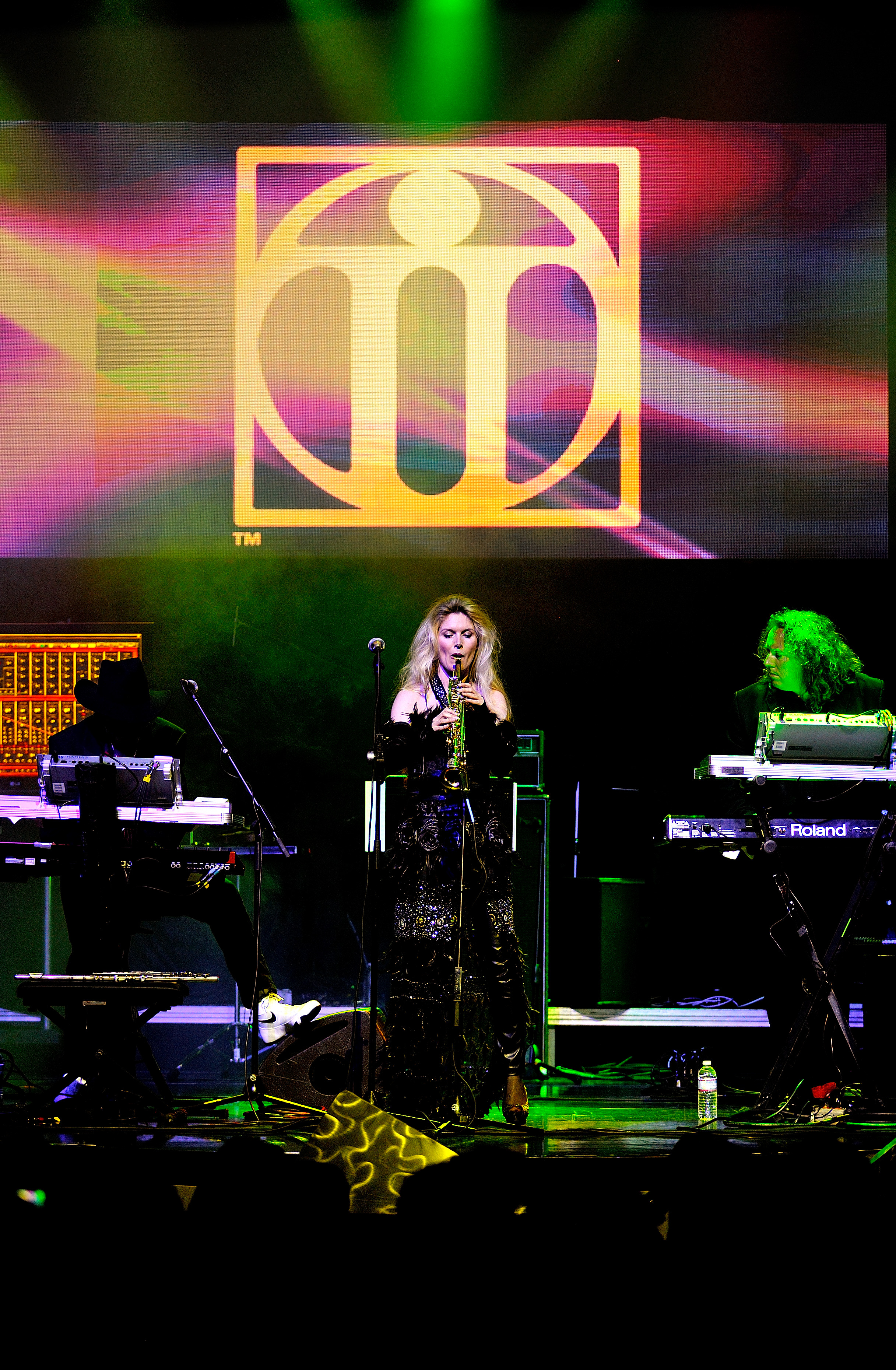 Linda Spa, w/ Tangerine Dream, performing live on the Cruise to the Edge, April 2014